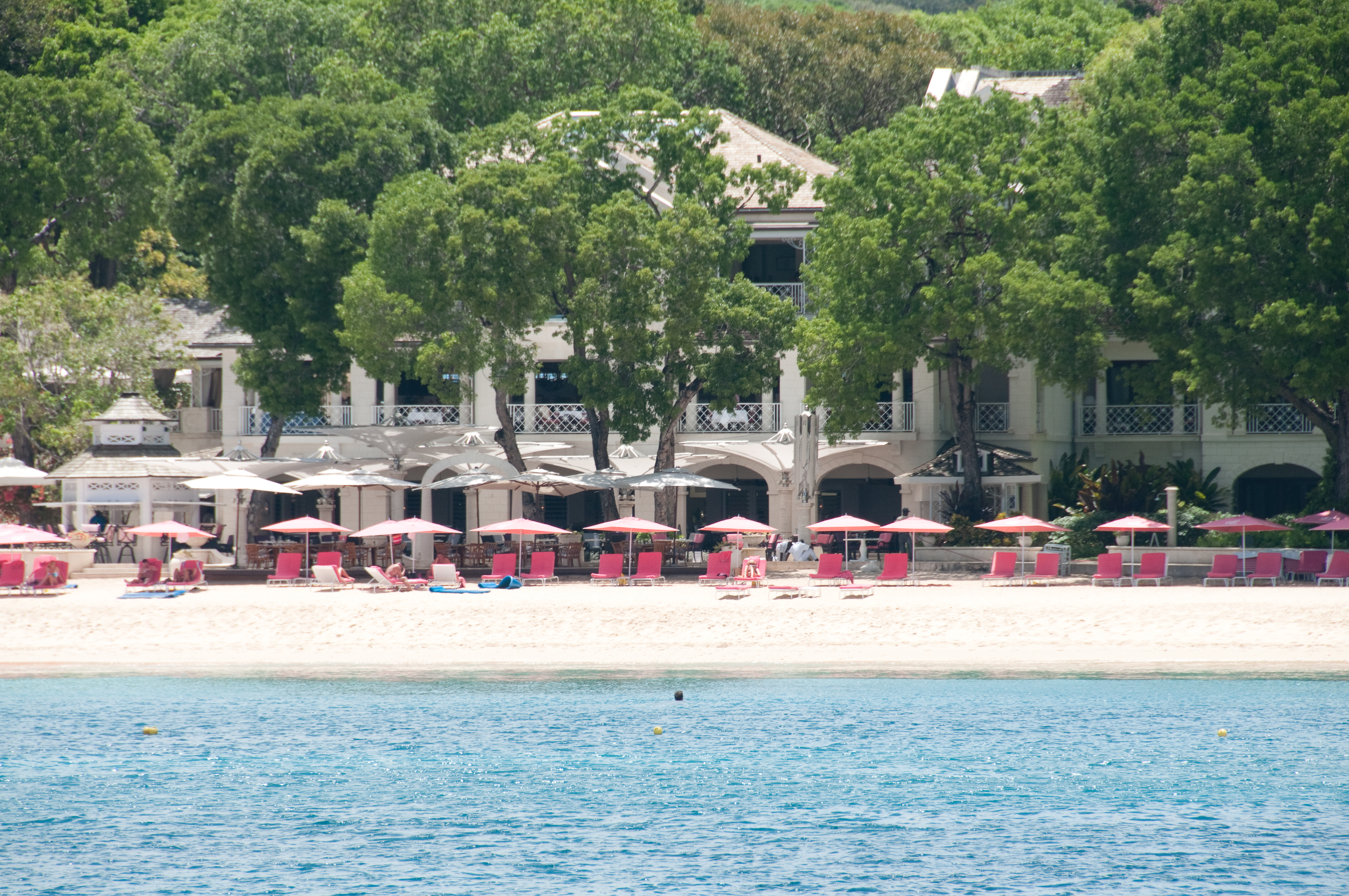 A view of The Sandy Lane Resort from the Water Outside The Hotel